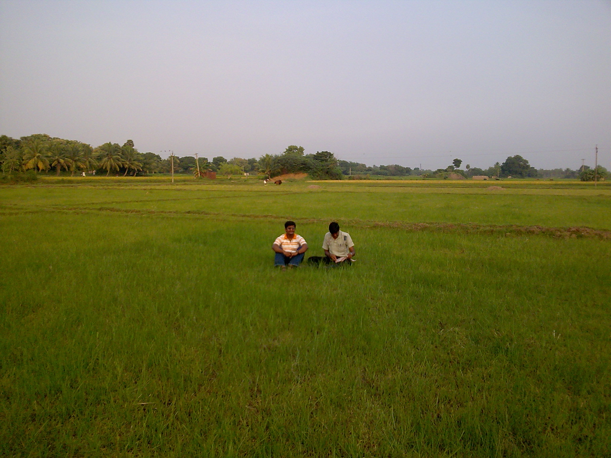 Agricultural land at Vadamanappakkam, India